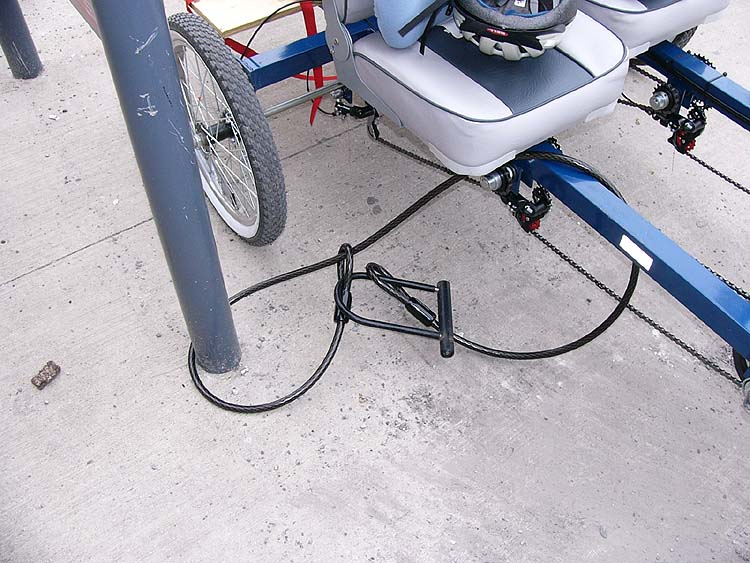 I took this photo of a quadracycle security cable and lock